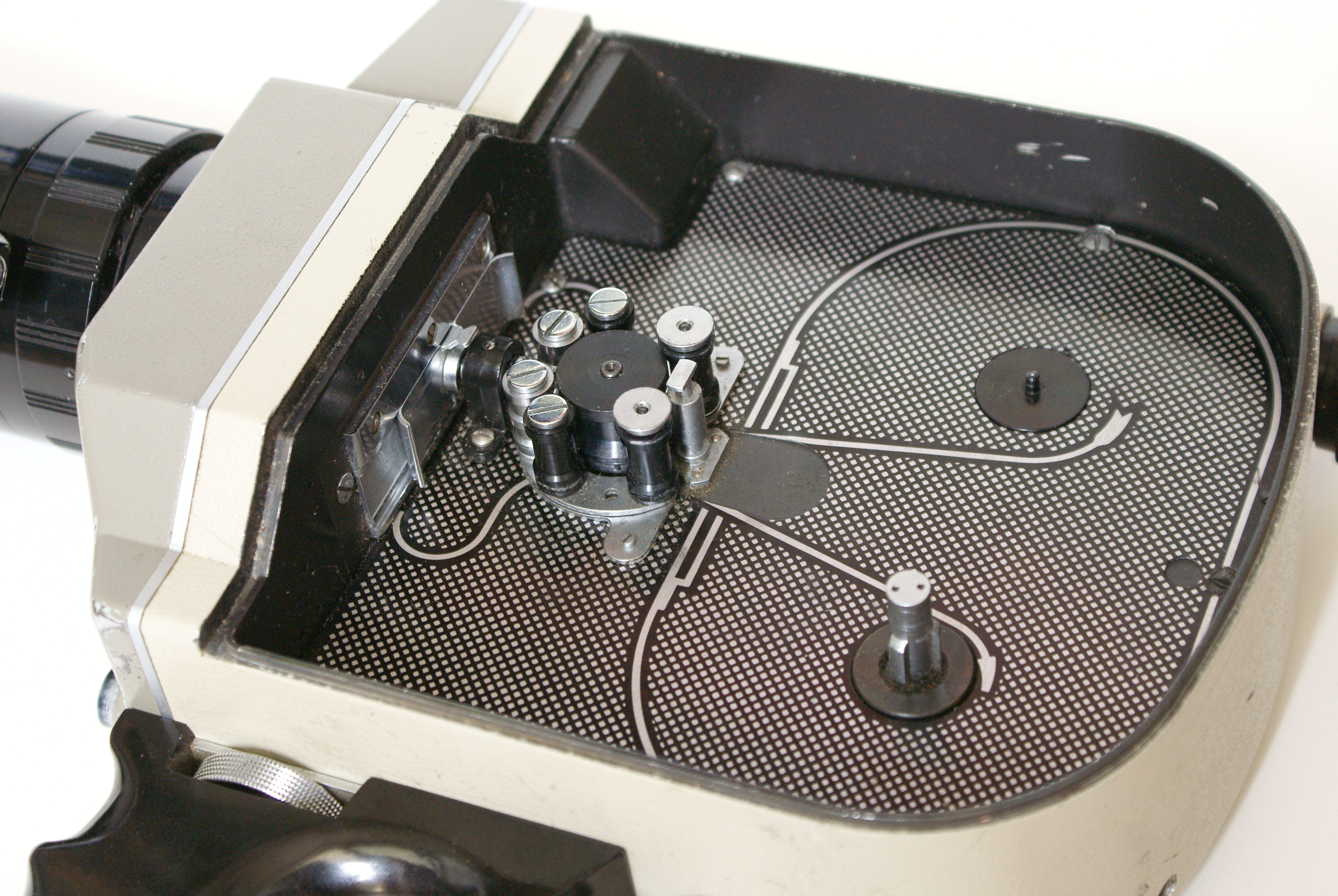 Inner chamber of soviet 16-mm movie camera Krasnogorsk-2.